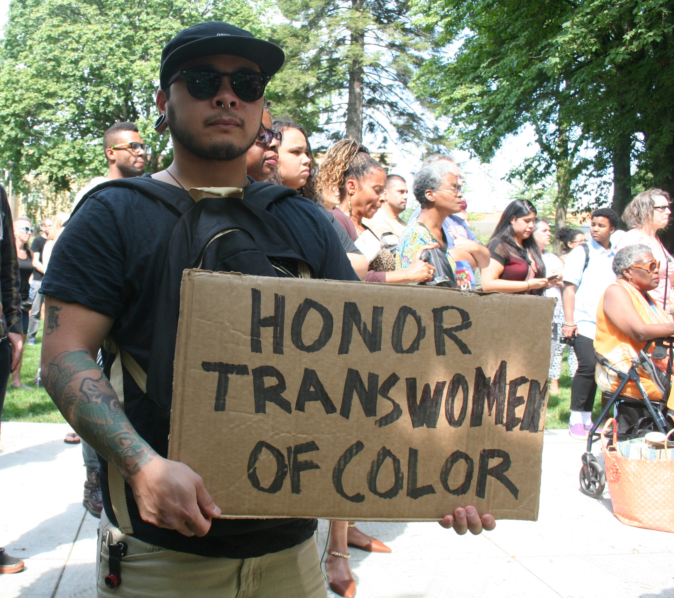 Photos from a rally for Don't Shoot PDX and #SayTheirNames